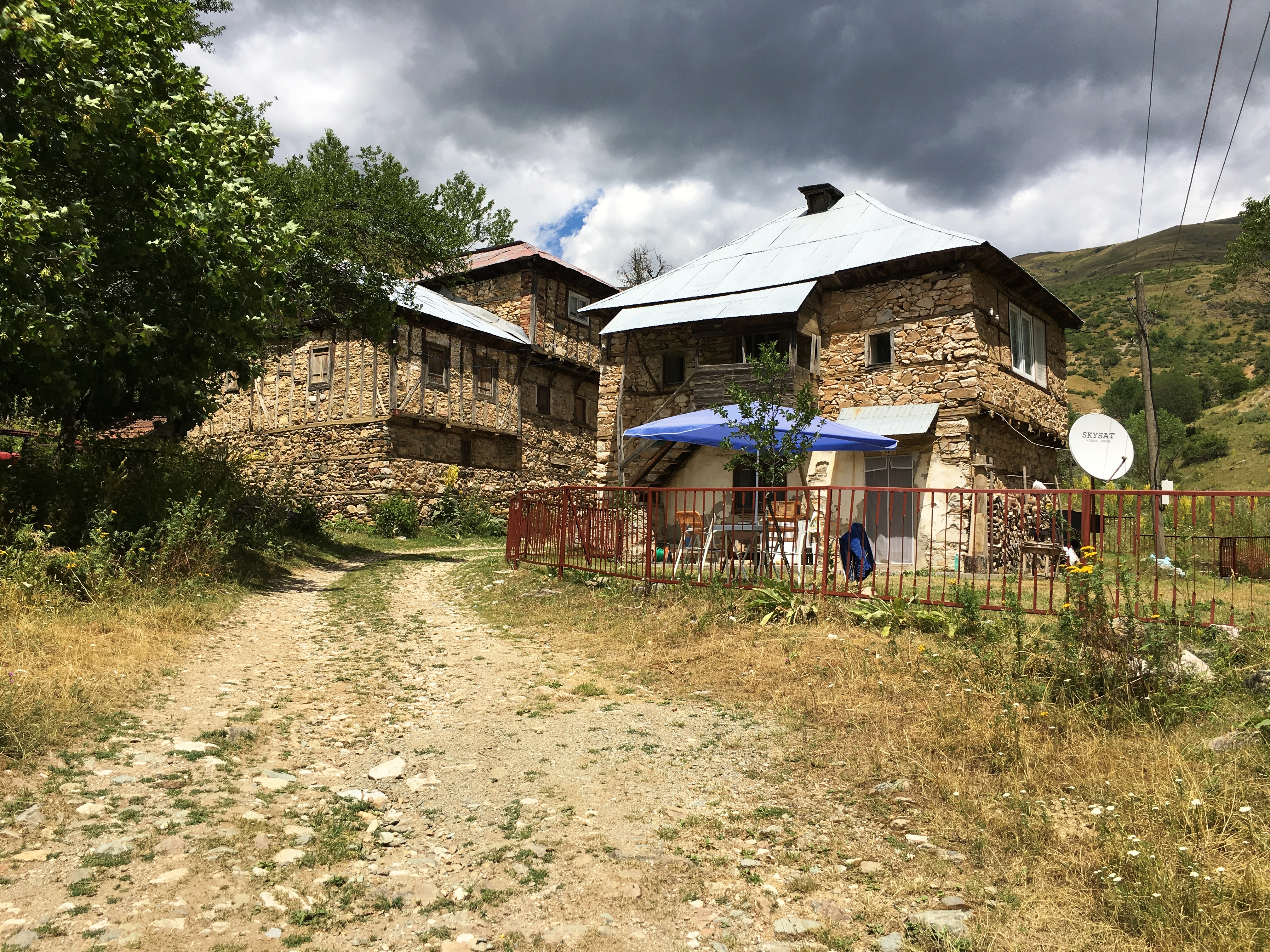 Houses in the village of Brodec